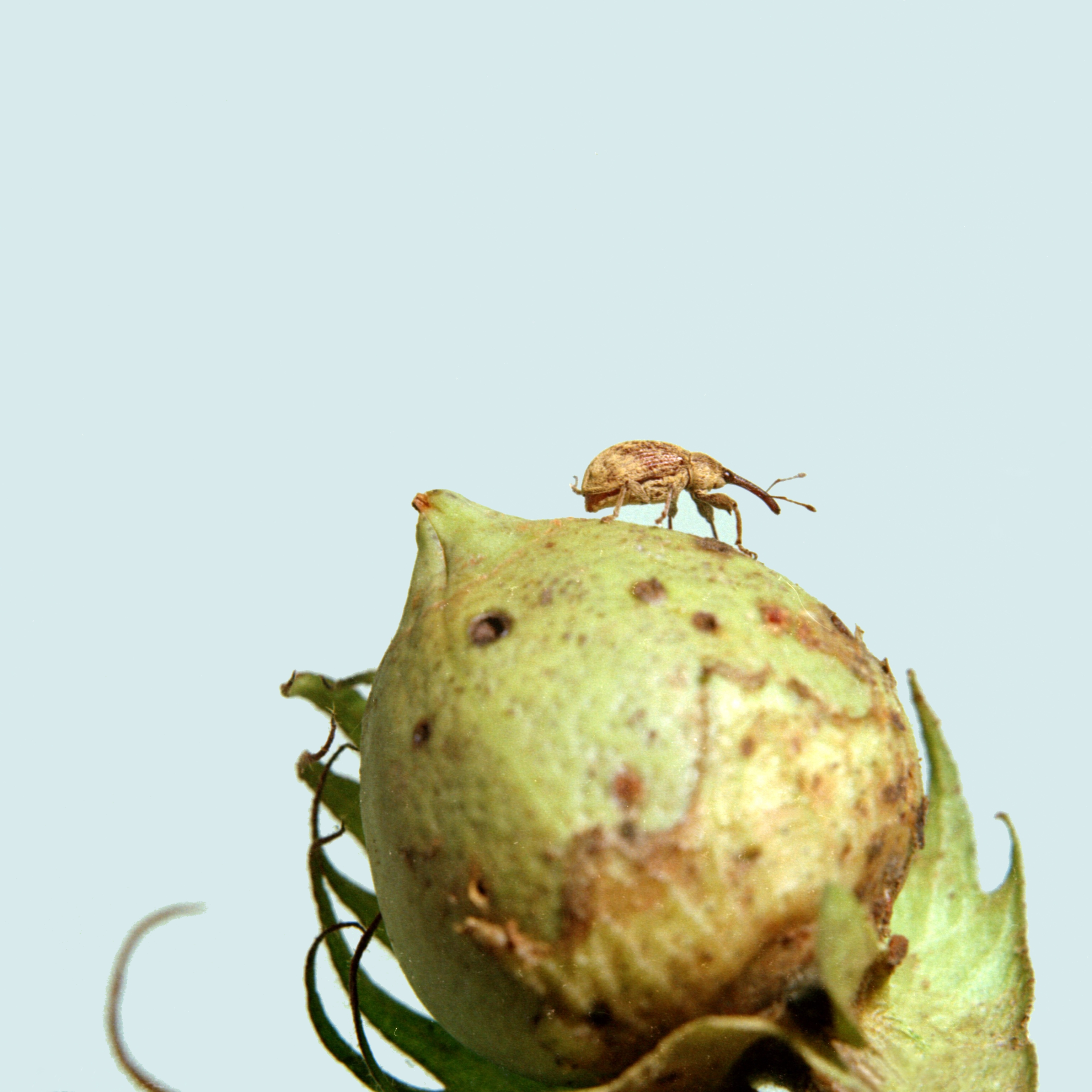 Anthonomus grandis Boheman, 1843 Host: cotton Gossypium hirsutum L. Common Name: boll weevil Photographer: Clemson University - USDA Cooperative Extension Slide Series, , United States Contact: Pat Zungoli, Clemson University Descriptor: Adult(s) Image taken in: United States